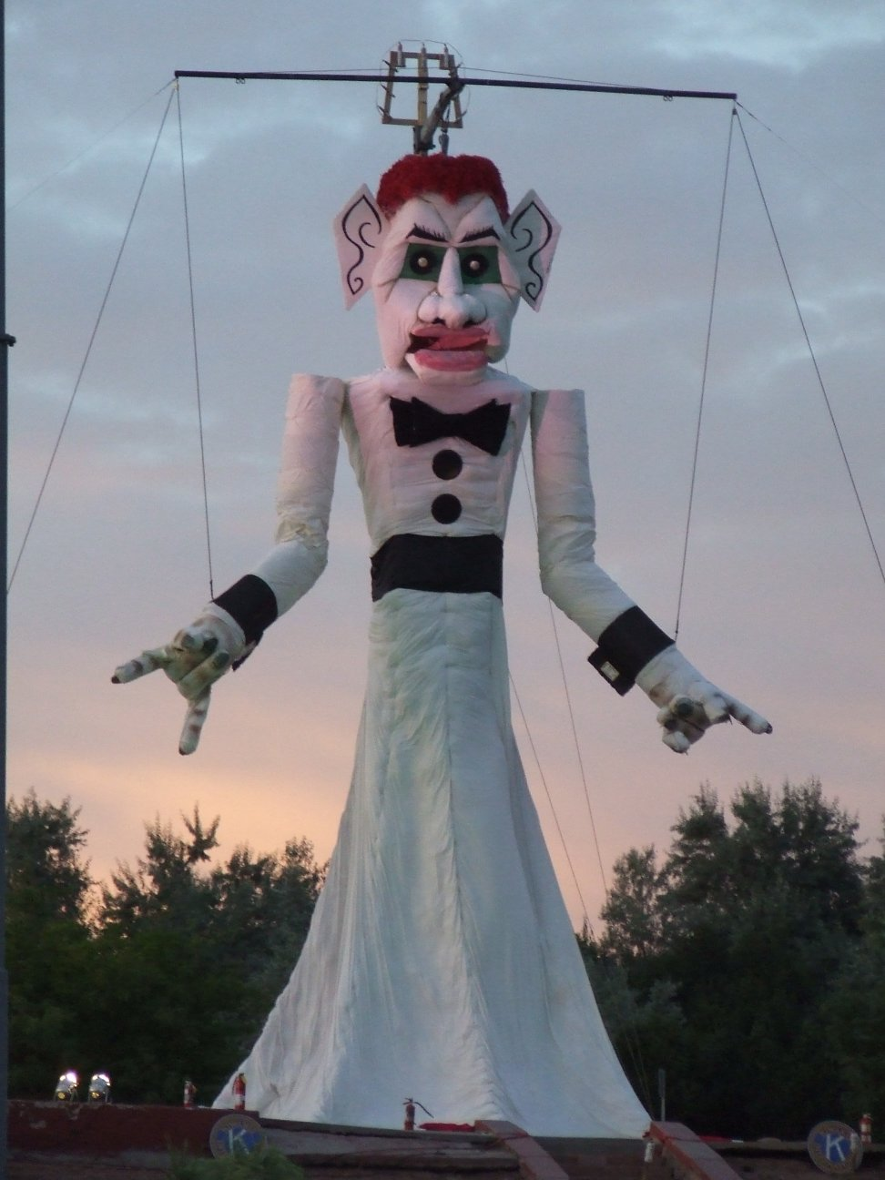 Zozobra 2007 at dusk.